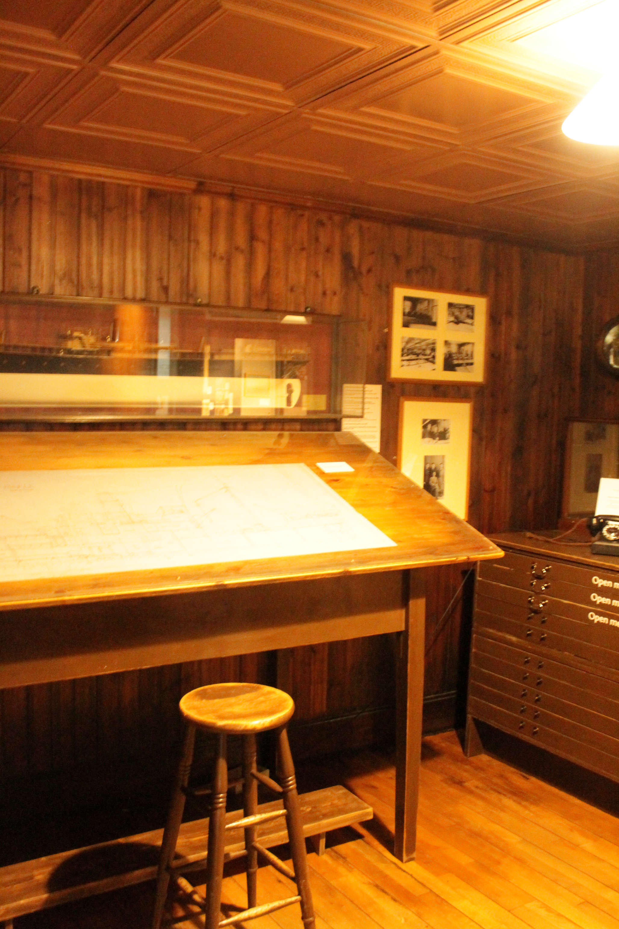 Reconstruction of a 19th century naval architect's office, Aberdeen Maritime Museum